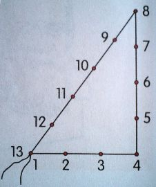 This picture show, how the old civilization measured right angle.